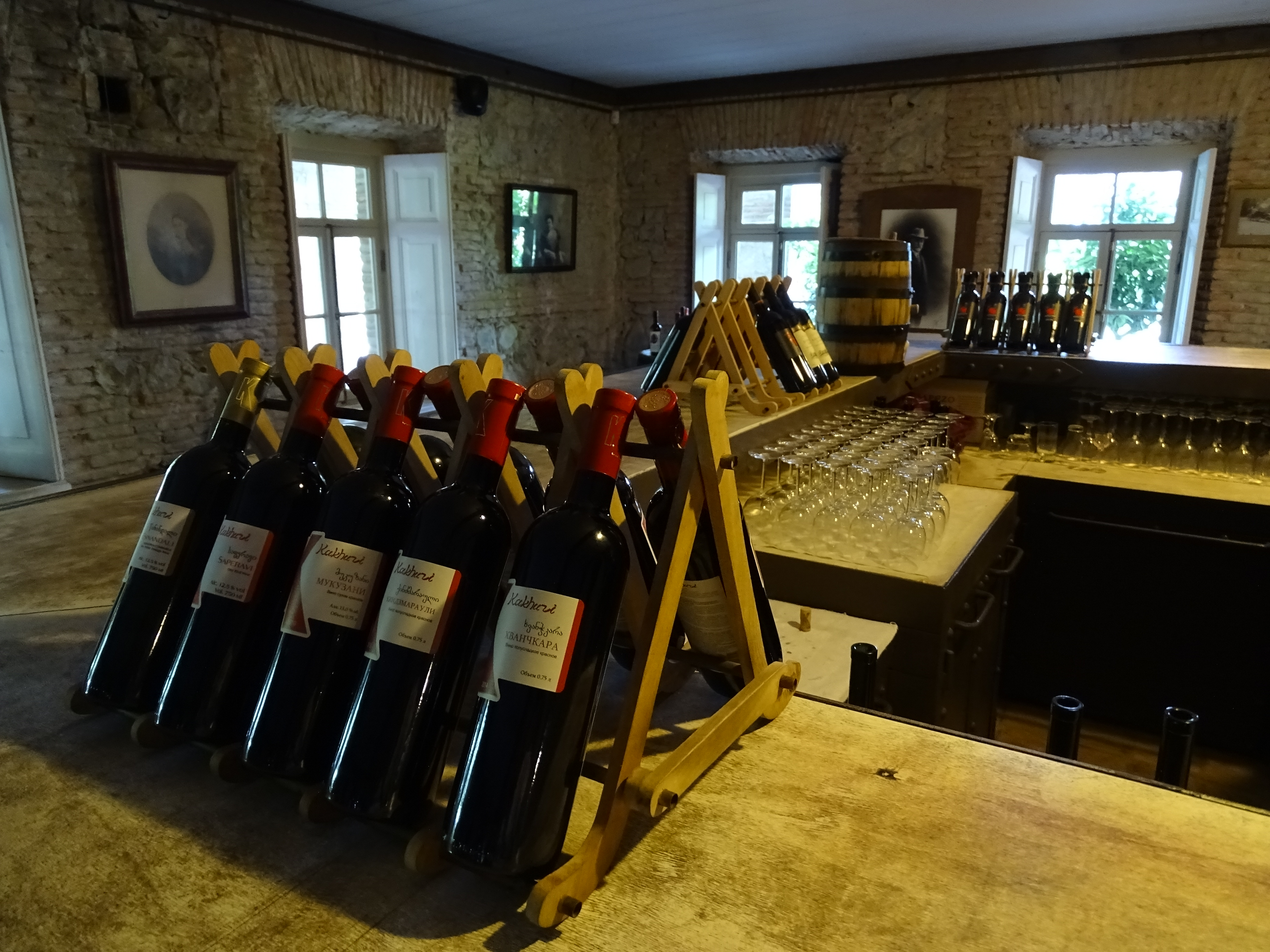 Interior of Chavchavadze Family Estate - Tsinandali - Near Telavi - Georgia - 02